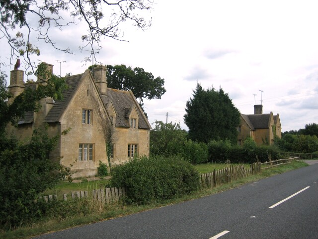 Raymeadow Cottages. Cottages on the east side of the Winchcombe to Sedgeberrow road, designed by William Eden Nesfield in 1876.